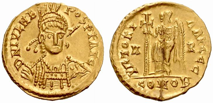 Julius Nepos first reign, 474-475, Solidus, Arles circa 474–475, AV 4.35 g. D N IVL NE – POS P F AVG Helmeted, pearl-diademed and cuirassed bust three-quarters facing, holding spear and shield with horseman and enemy motif. Rev. VICTORI – A AVGGG Victory standing l., supporting long jewelled cross; in field l and r., A – R. In exergue, COMOB. C 5. RIC 3223. Depeyrot 29/1. LRC 948. Lacam 8 (this coin).